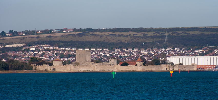 Portchester combined Roman and Norman castles